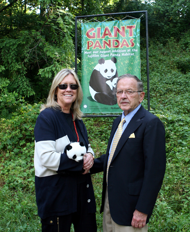 Senator Ted Stevens and his wife, Catherine Ann Chandler, at the National Zoo in Washington D.C.